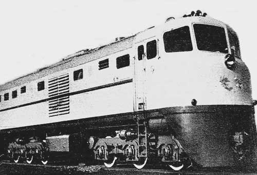 A "Xianxing" class diesel locomotive produced in 1959.